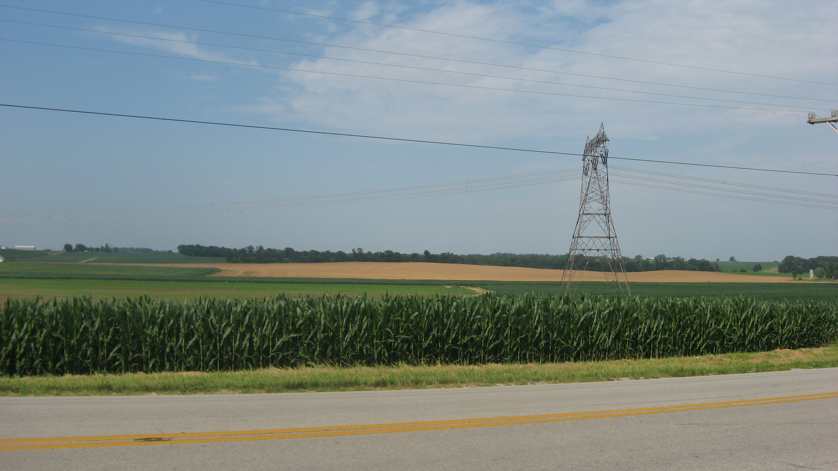 Looking northward across fields in Steen Township, Knox County, Indiana, United States; the scene is the junction of State Road 550 and Wheatland Road, west of the town of Wheatland.